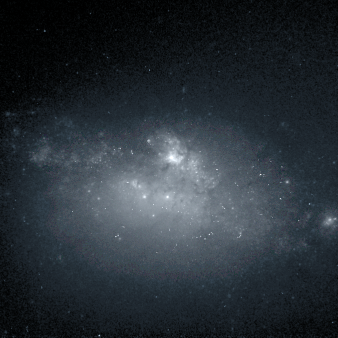 Color rendering is done by by Aladin-software (2000A&AS..143...33B.)